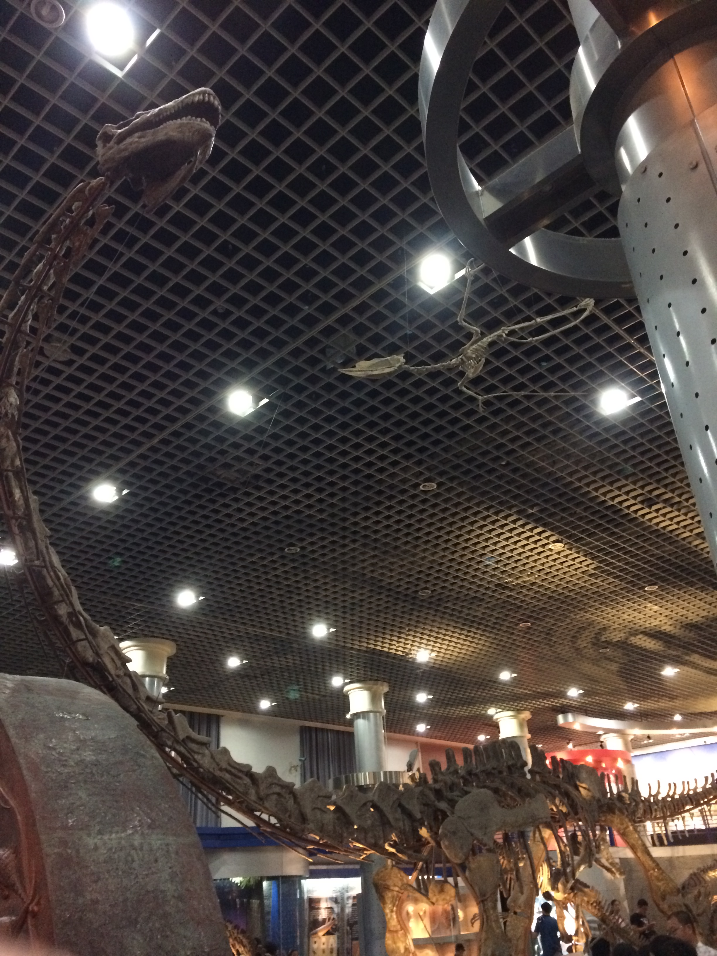 Mamenchisaurus jingyanensis skeleton mounted at BMNH